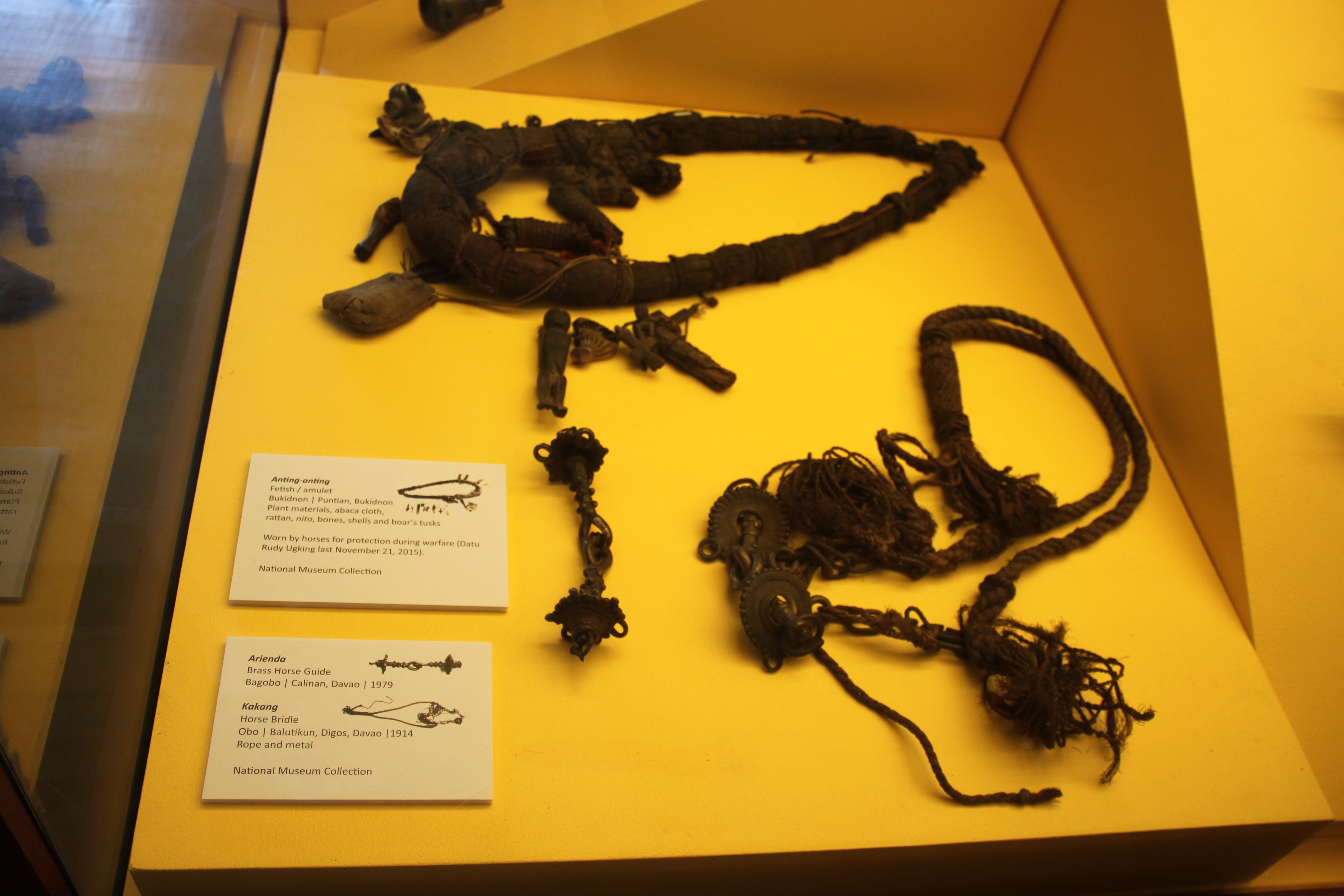 Bangsamoro and Lumad Cultures Gallery, Museum of the Filipino People, Rizal Park, Manila, Philippines. Complete indexed photo collection at .